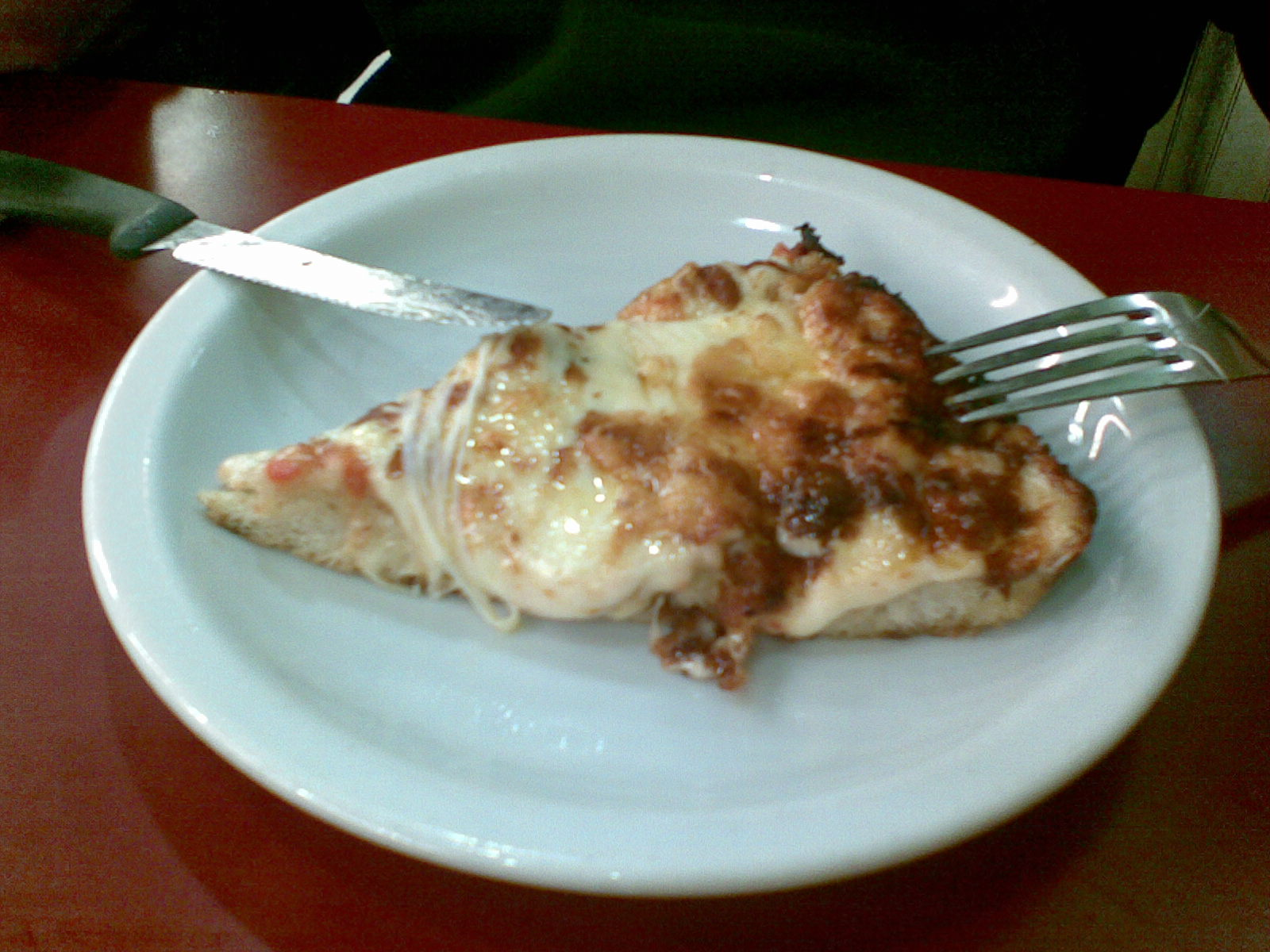 pizza from Las Cuartetas